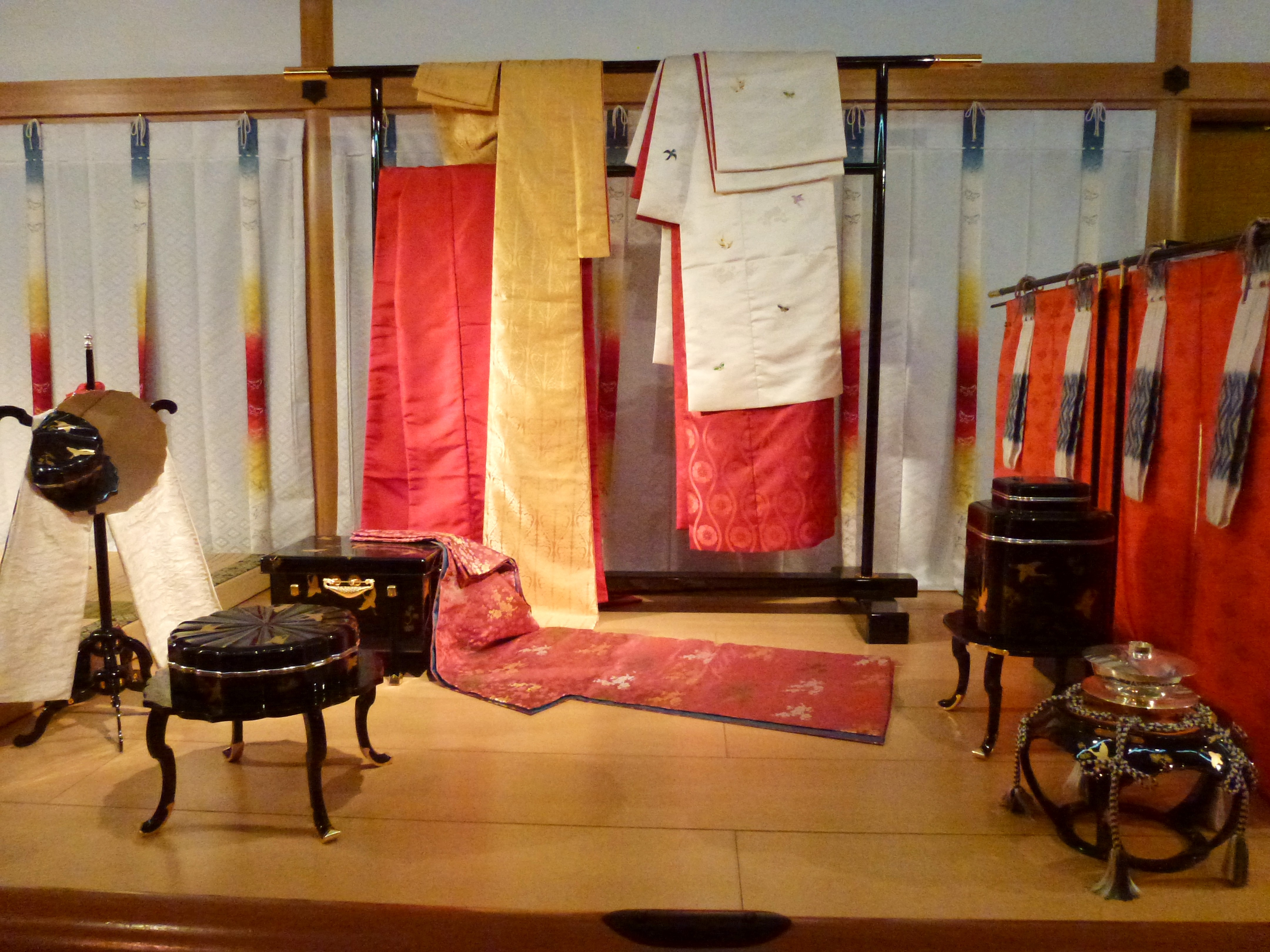 The attire and the furnishings of a court lady. The Tale of Genji Museum.